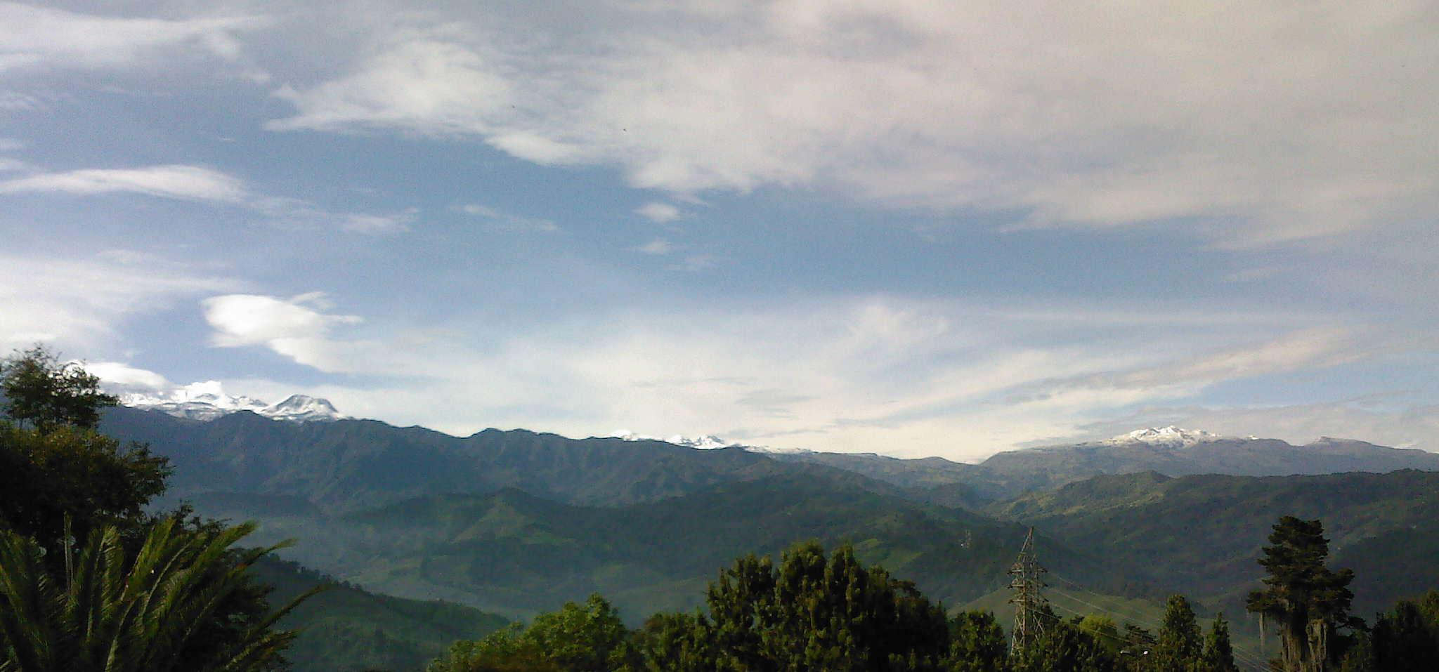 Picture of El Ruiz nevado (first, at left), Santa Isabel nevado (center), Santa Rosa range or páramo (right)